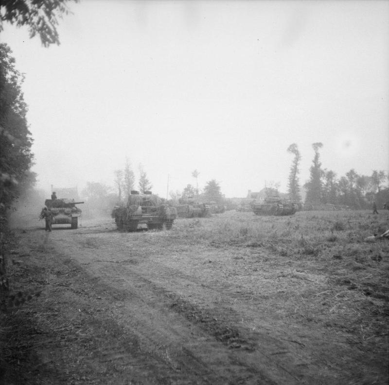 British Tanks Nw Europe 1944-45 Churchill tanks of 31st Tank Brigade prepare for an assault on Hill 112 in the Odon Valley during Operation Jupiter, Normandy, 15 July 1944. On the left is an M10 tank destroyer, possibly of 340 Anti-Tank Battery, Royal Artillery, which was attached to 31st Tank Brigade at this time.